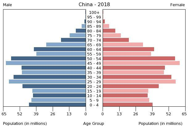 The population pyramid of China illustrates the age and sex structure of population and may provide insights about political and social stability, as well as economic development. The population is distributed along the horizontal axis, with males shown on the left and females on the right. The male and female populations are broken down into 5-year age groups represented as horizontal bars along the vertical axis, with the youngest age groups at the bottom and the oldest at the top. The shape of the population pyramid gradually evolves over time based on fertility, mortality, and international migration trends.